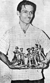 Zahir Raihan (born August 19, 1935 - went missing and presumed killed 30 January 1972) was a renowned Bangladeshi activist, film director, novelist, and storyteller.